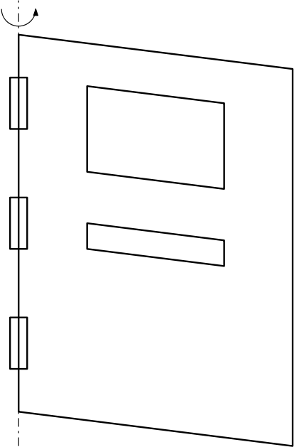 A hinged door is one of the simplest over-constrained mechanism.